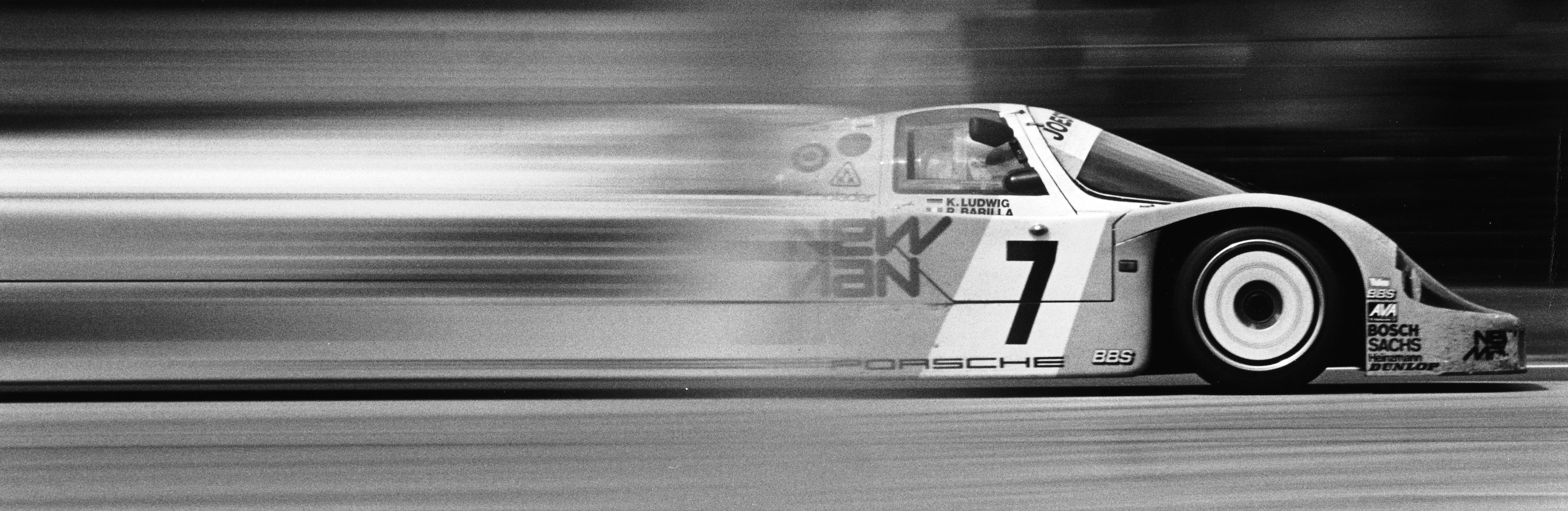 The '24h of Le Mans 1985' winning Joest-Porsche 956C of Klaus Ludwig (D), Paolo Barilla (I) and "John Winter" (D). Panned with 1/60s by using a Canon New F-1 LA1984 with FD 1.2/85L lens equipped with a so-called 'Speed Filter' by Cokin.